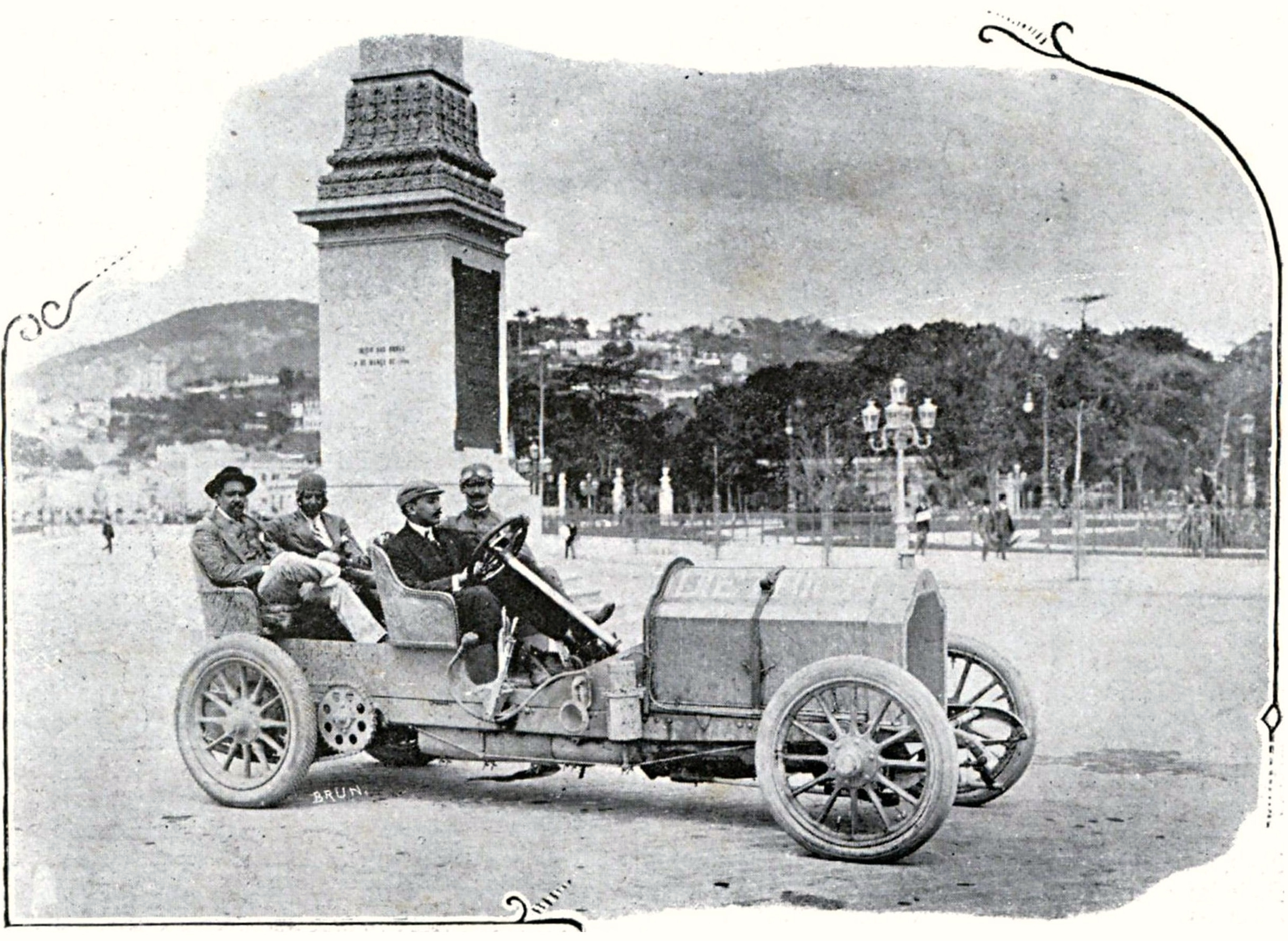 A Dietrich 60 HP in Avenida Central (today Avenida Rio Branco), Rio de Janeiro, Brazil, 1908